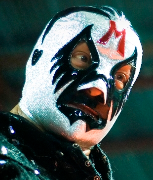 Professional wrestler Mil Máscaras in 2009.